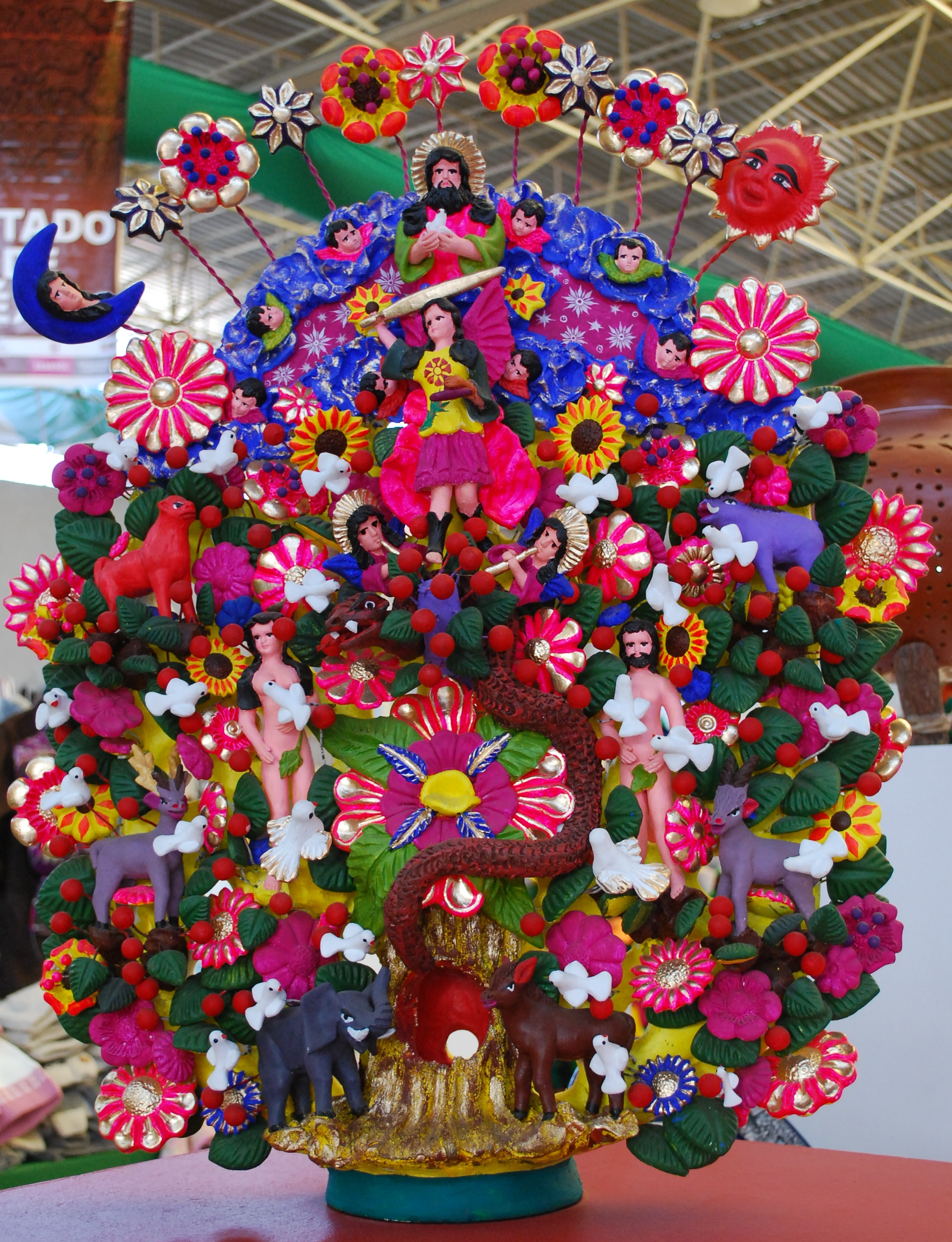 Traditional Tree of Life with Garden of Eden theme from Metepec, Mexico State at the crafts section of the Feria del Caballo, Texcoco, Mexico State, Mexico. See COM:CRT/Mexico#Freedom of panorama